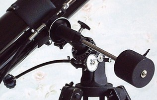 Equatorial mount for low price telescopes